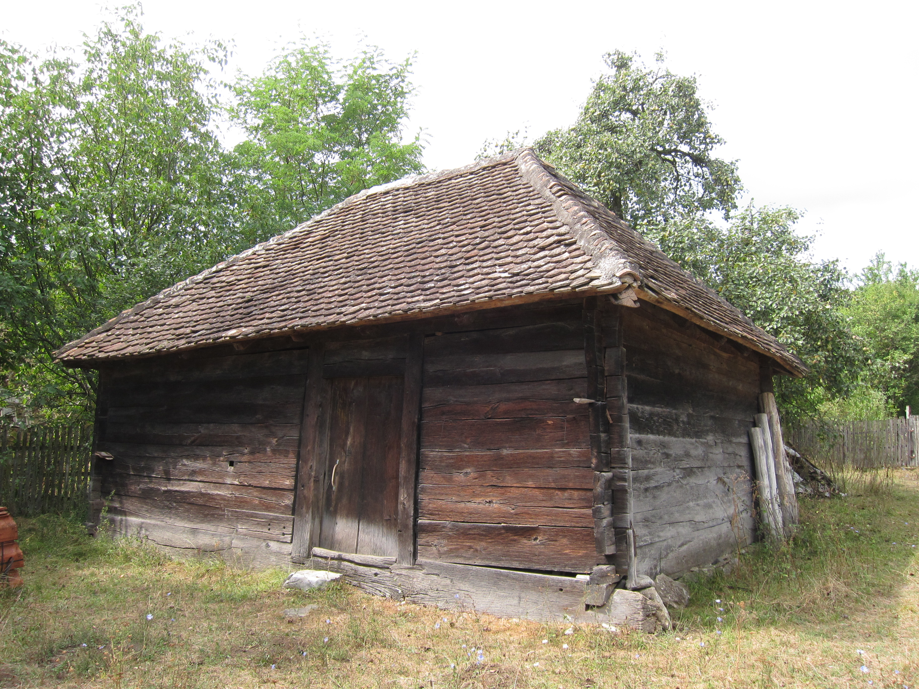 Garden of prince Jovica Milutinović in Mionica- vajat